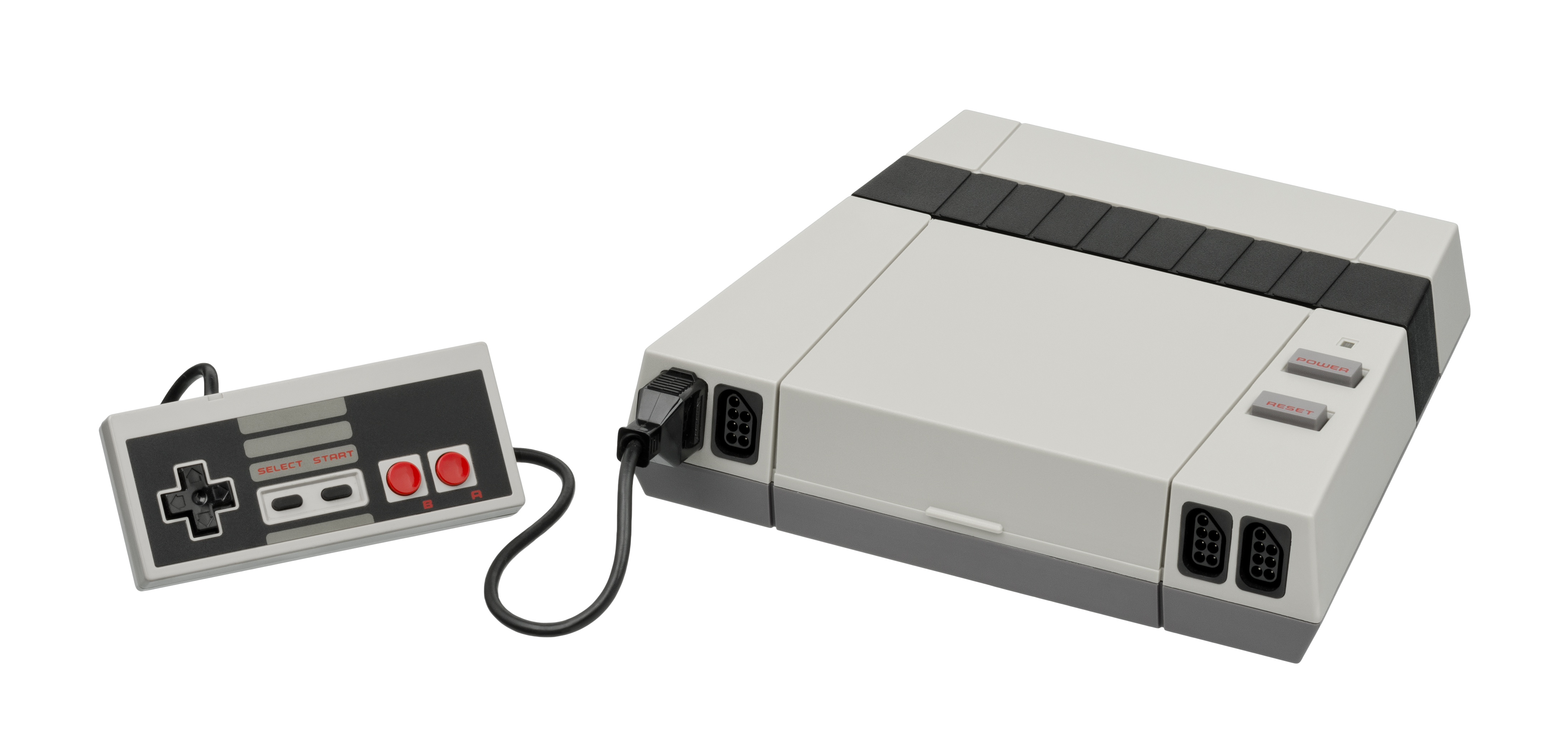 The AVS video game console, a Nintendo Entertainment System (NES) hardware clone, shown with an original NES controller (the system has no bundled controller). Designed and produced by Brian Parker of RetroUSB, this system uses a FPGA to hardware emulate the NES console. It outputs via HDMI at 720p, greatly reducing lag and improving visuals on modern LCD TVs versus the NES's original composite video. The system supports Famicom or NES cartridges, original accessories and up to four players.